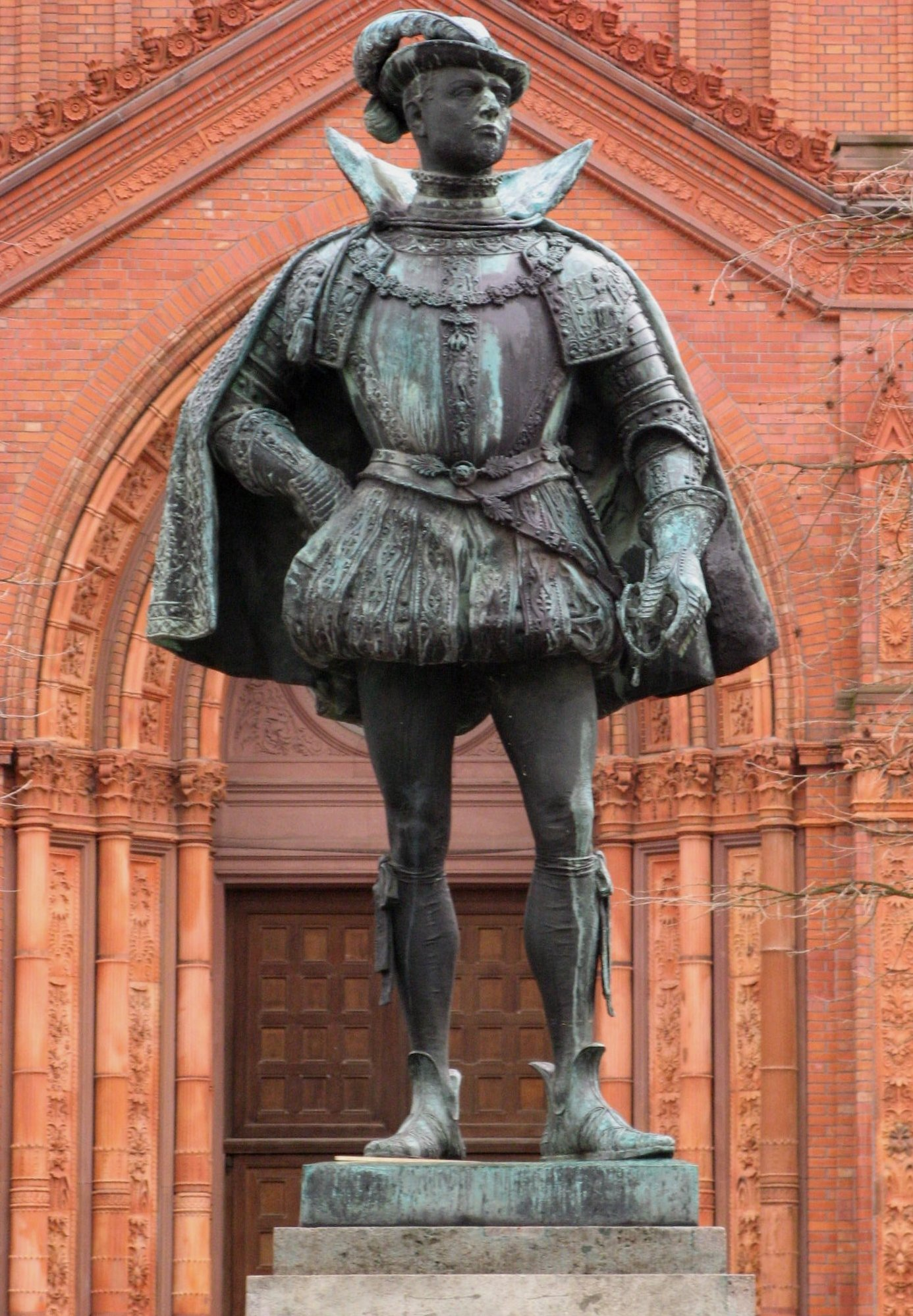 The Monument of Prinz von Oranien Graf von Nassau in Wiesbaden, sculpted by Walter Schott. It's a copy of a statue in Berlin and was erected in Wiesbaden on May 15, 1908.